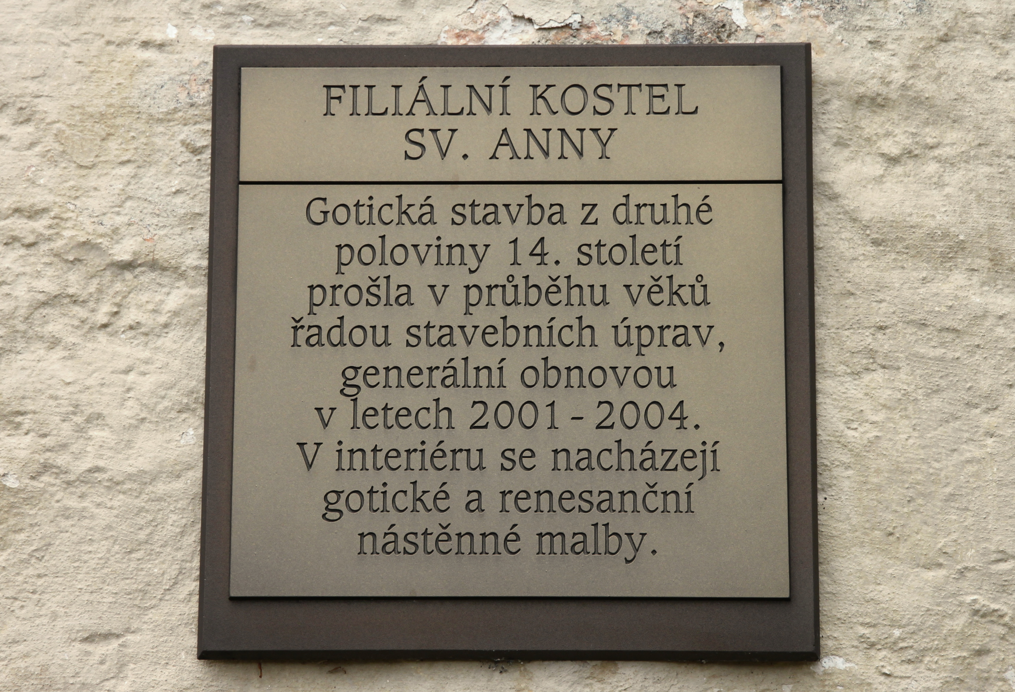 Church of Saint Anne in the village of Libínské Sedlo, which is a part of the Prachatice Municipality, South Bohemian Region, Czechia.